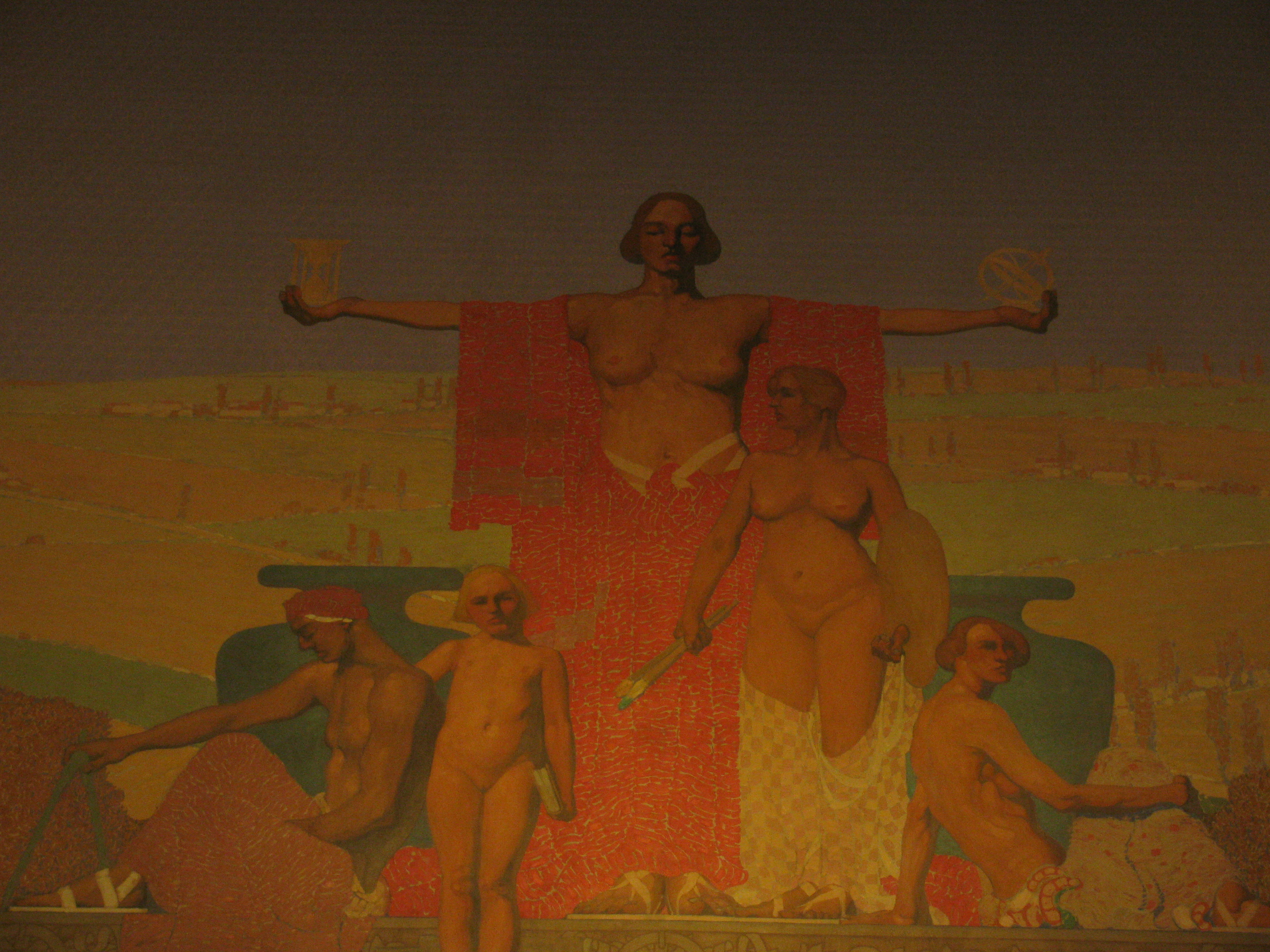 The Goddess of Time and Space by Jules Guerin. Mural glued to east wall of Memorial Hall, above entrance to House of Representatives, Louisiana State Capitol.